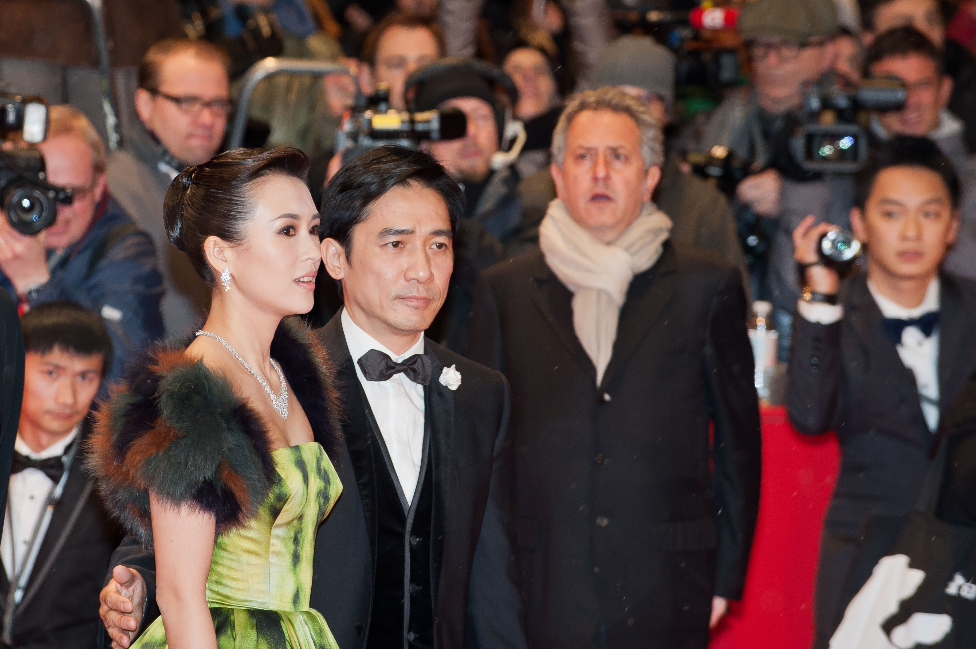 Chinese Actors Tony Leung Chiu Wai and Zhang Ziyi at the Berlin Film Festival 2013